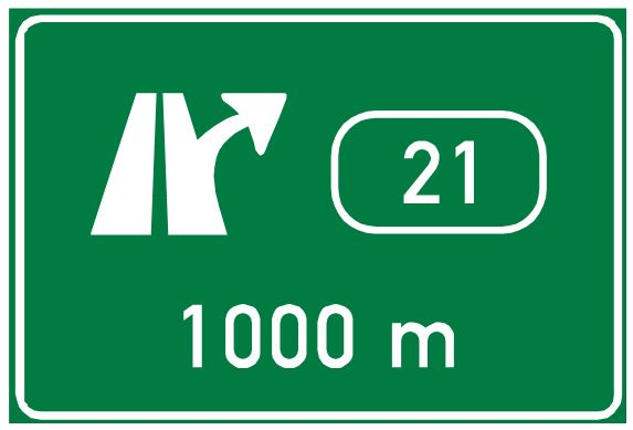 IS 6a "Intersection indication". Road sign of the Czech Republic.